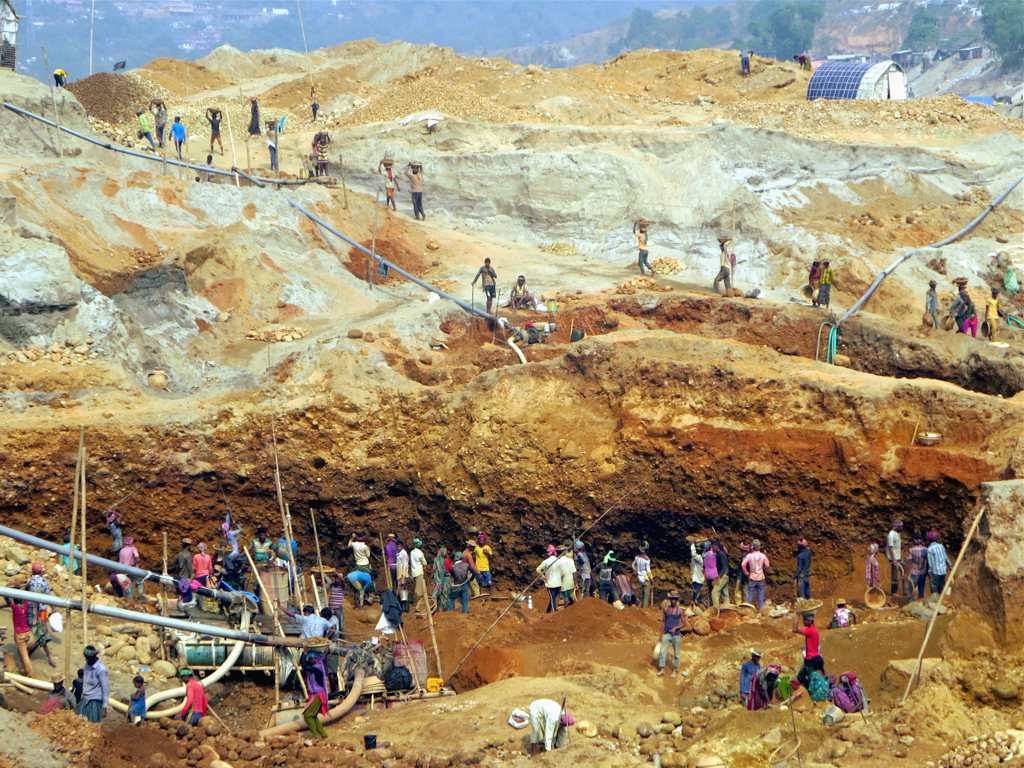 Hundreds of workers are used to extract stone from the bed of the Goyain River at Jaflong, Bangladesh. The hills of Meghalaya, India, visible in the background, are the original source of this material.